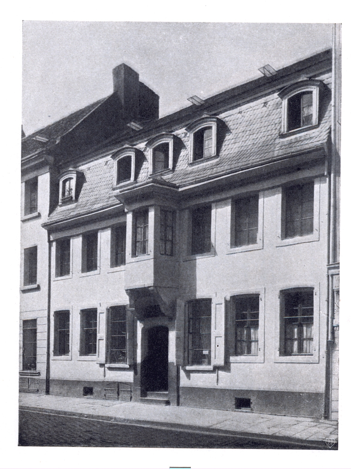 t